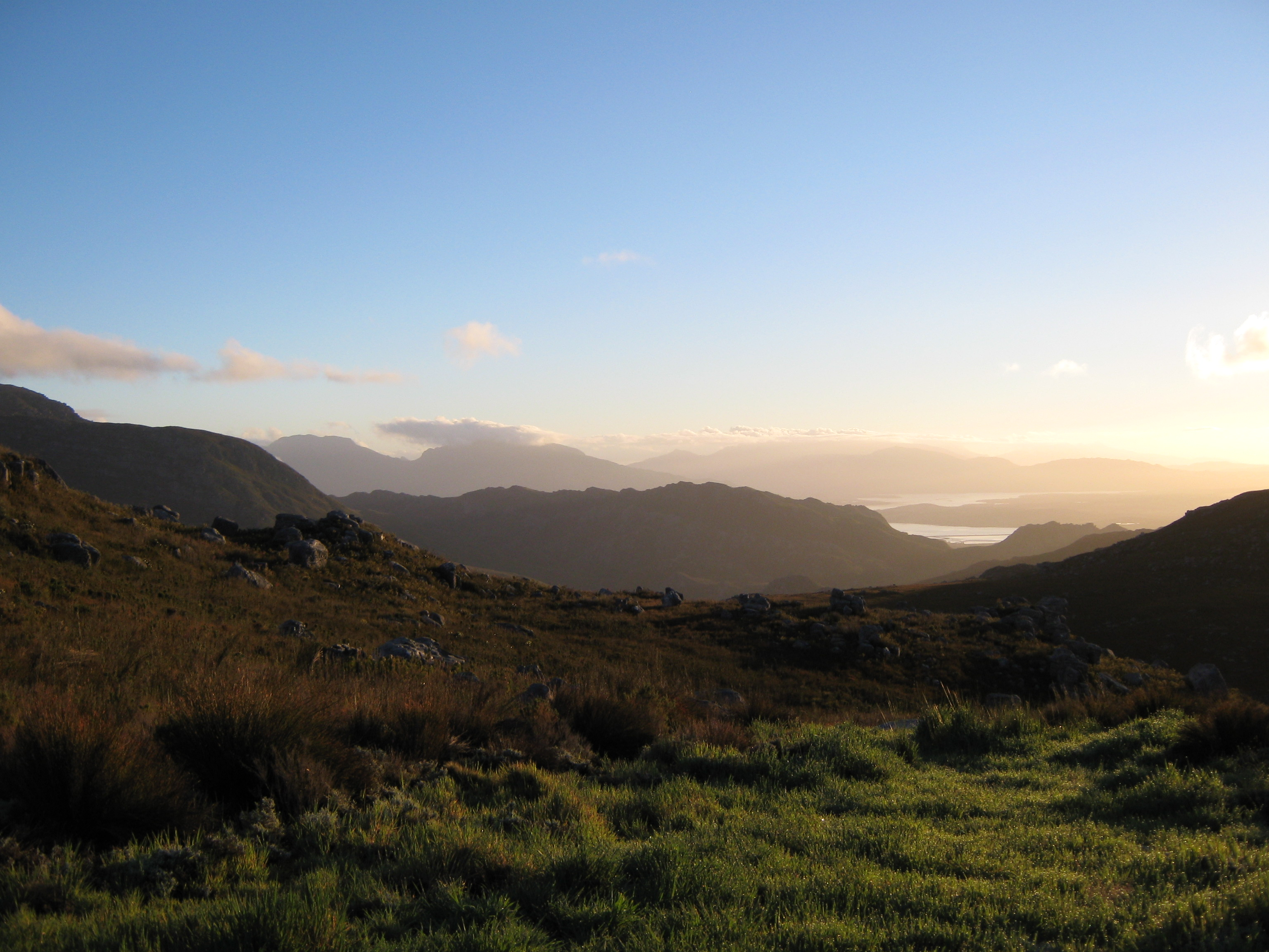 Hottentots Holland Mountains. South Africa.